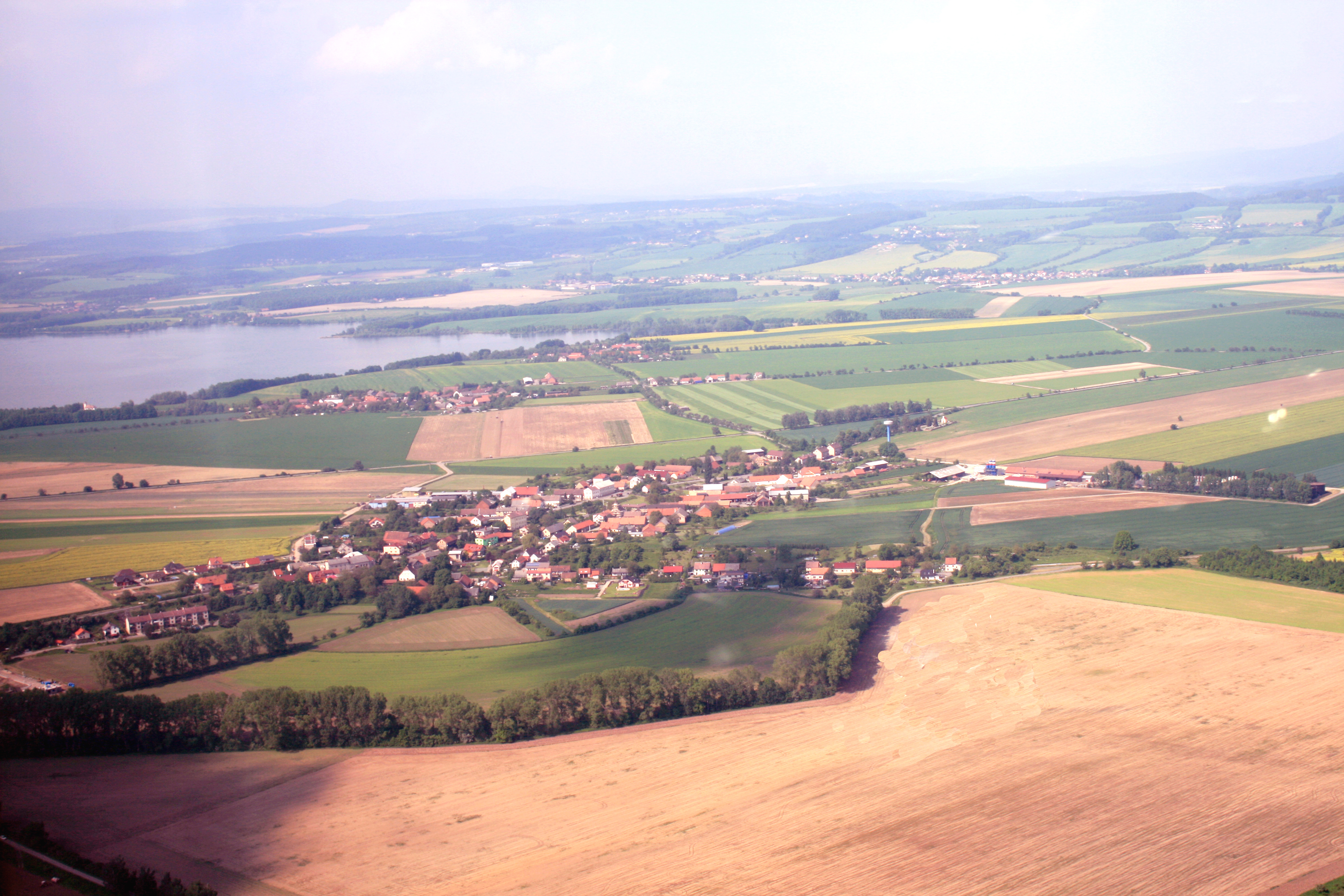 Village Nahořany and its part Lhota (back) from air, eastern Bohemia, Czech Republic